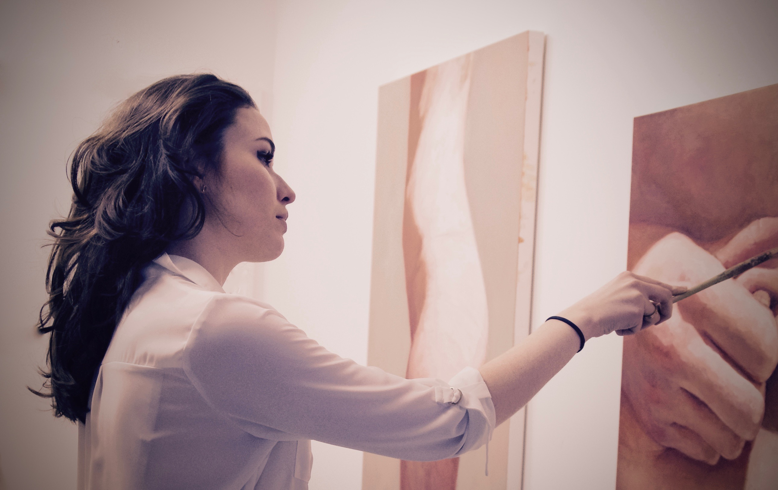 Studio Portrait of Amy Hughes painting in art studio amongst oil paintings